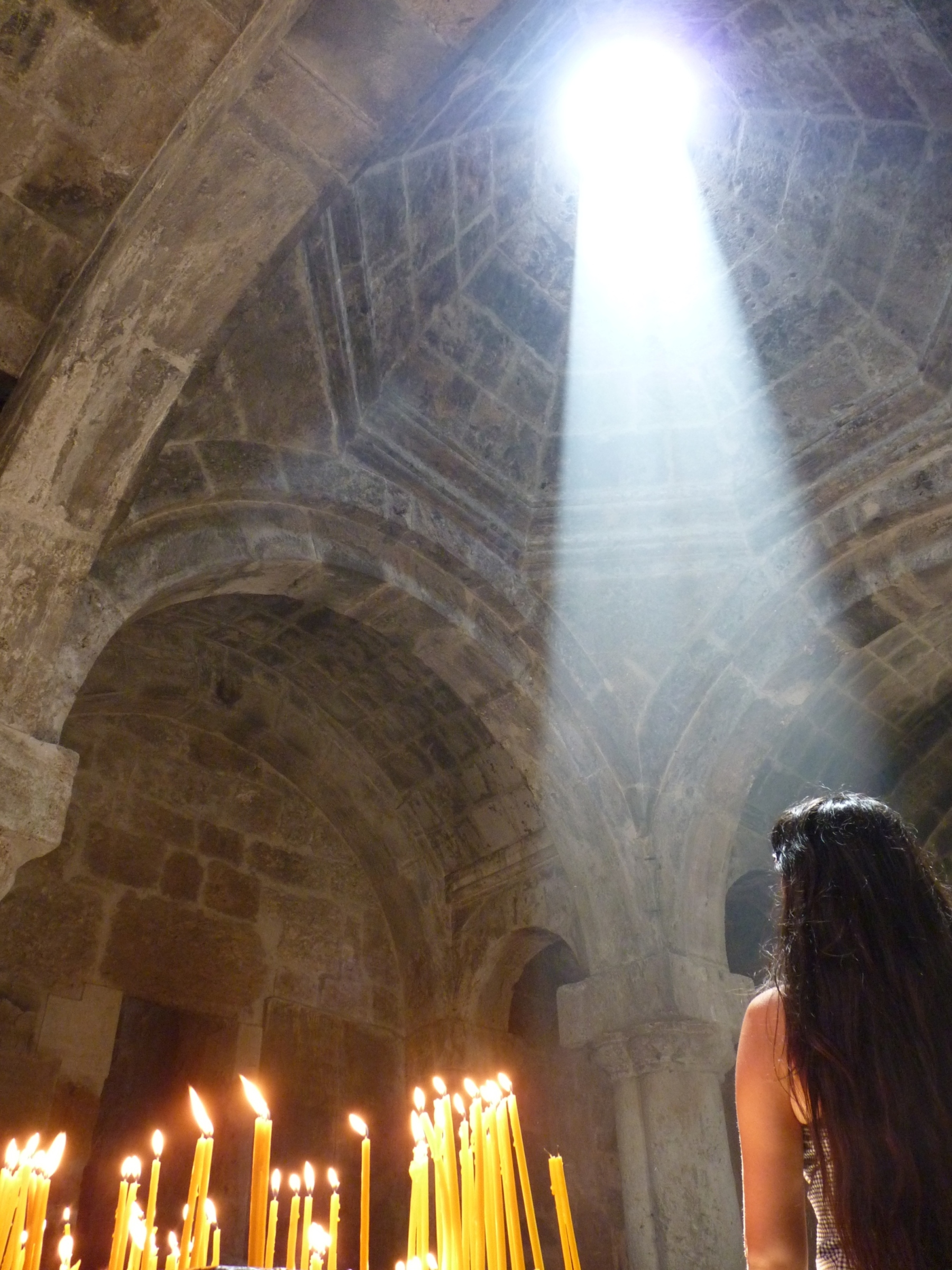 This photo was taken in high summer with the light illuminating a simple altar with candles.